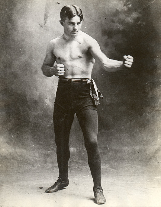 Photograph of Billy Papke